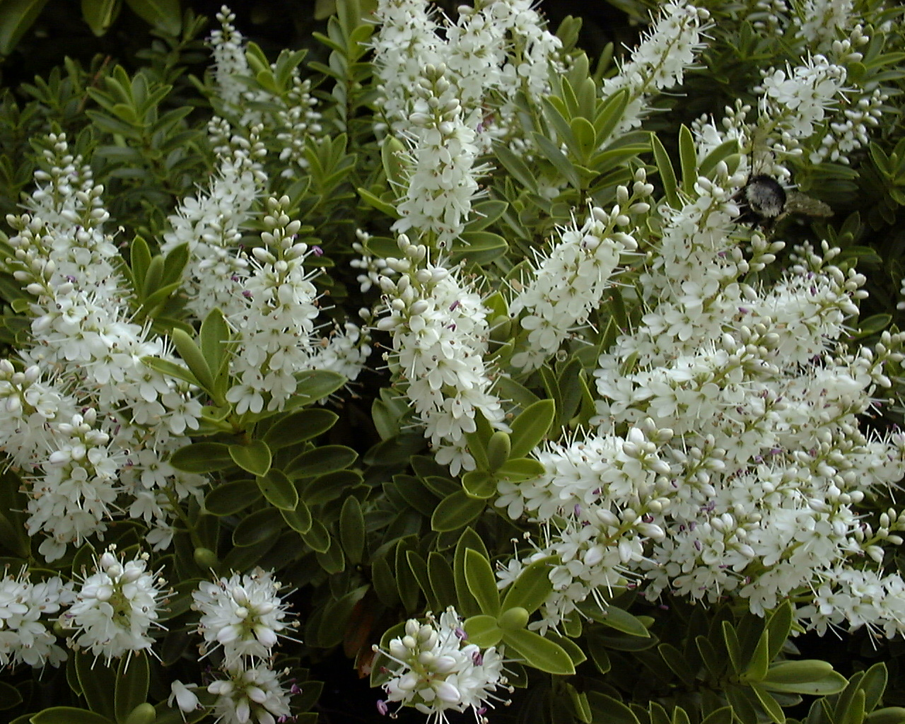 The leaves and flowers of Hebe rakaiensis, a plant of the Hebe genus. The picture was taken at approximately 12:30 UTC under conditions of broken cloud. The equipment used was a Toshiba PDR-M1 digital camera in Auto and Macro modes.